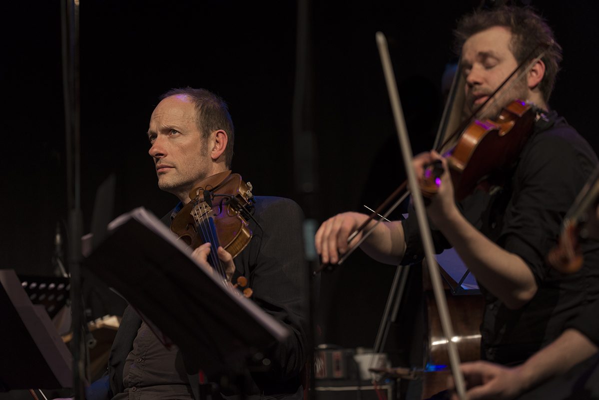 german jazz musician Albrecht Maurer